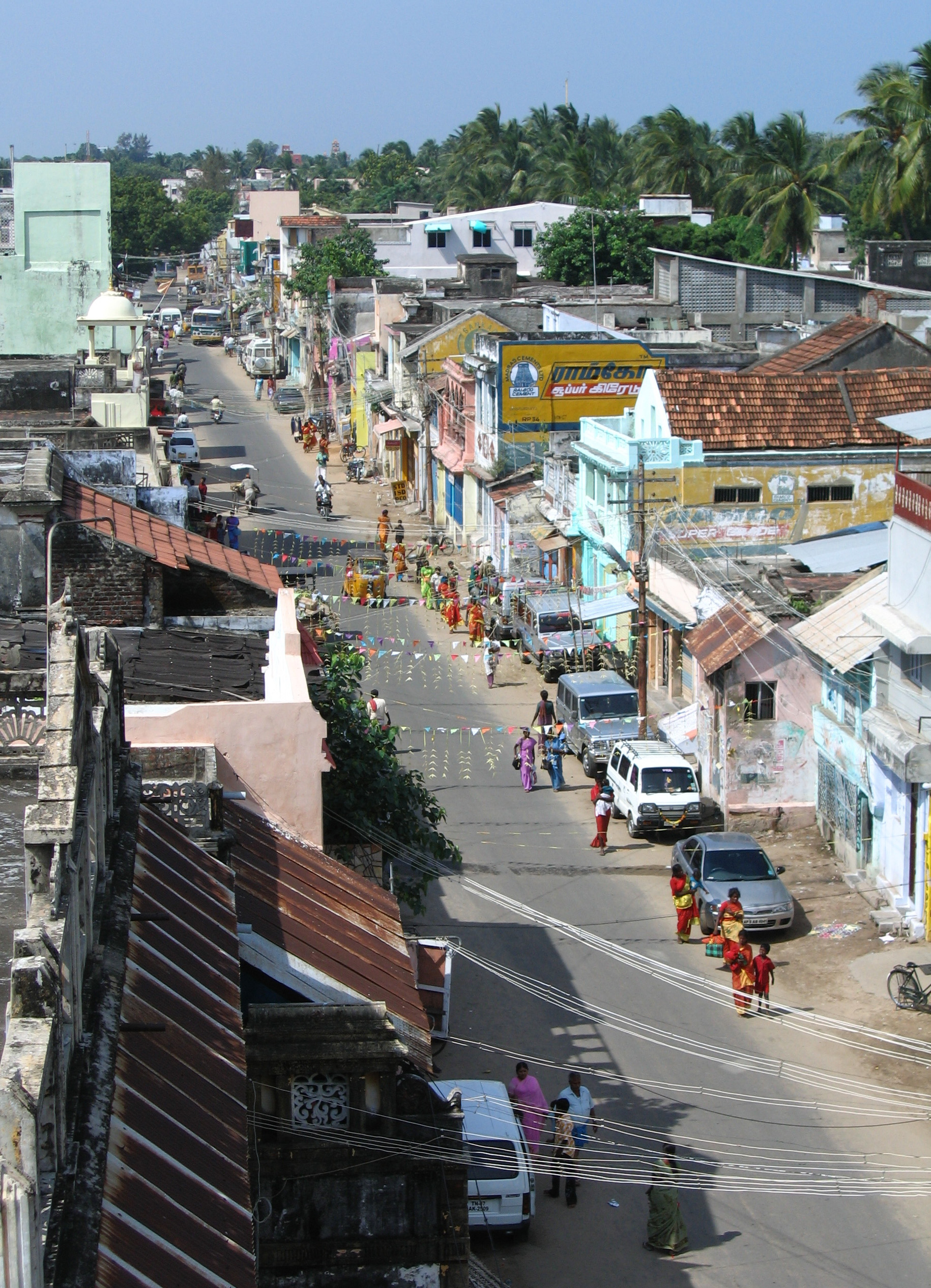 Rameswaram - street near temple